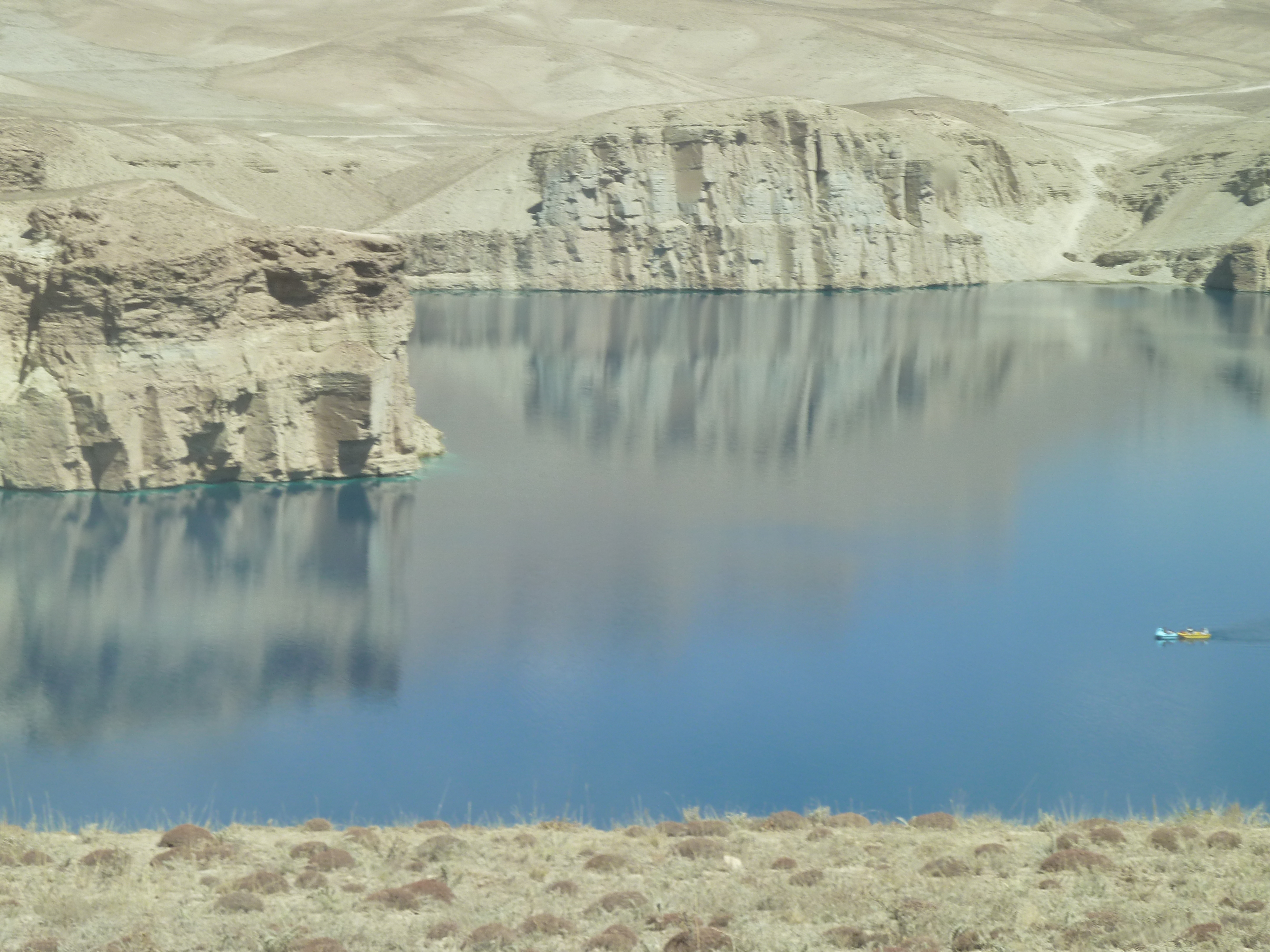 Afghanistan